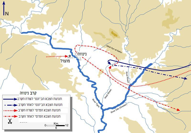 map detailing maneuvers of byzantine and persian forces before and after the battle of nineveh.